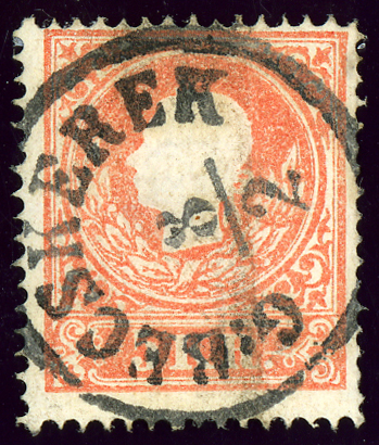 Austrian KK 5 kreuzer stamp, issue 1859, cancelled G:BECSKEREK (German), Temes District, Serbia.